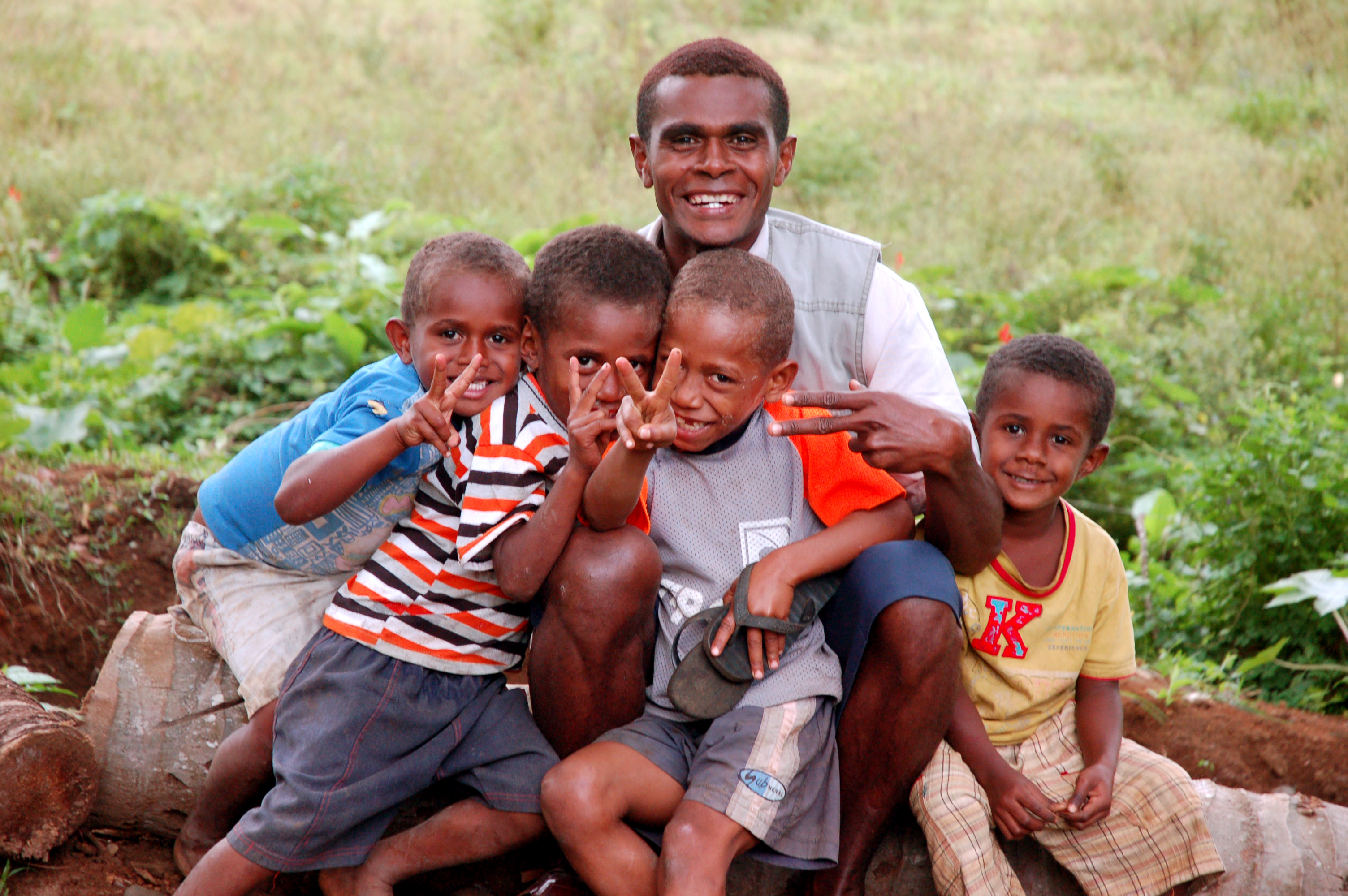 I consider this one of my best photos from Fiji. It has perfect lighting. Taken w/ a Nikon D50 in Ravi Ravi Village, Fiji.